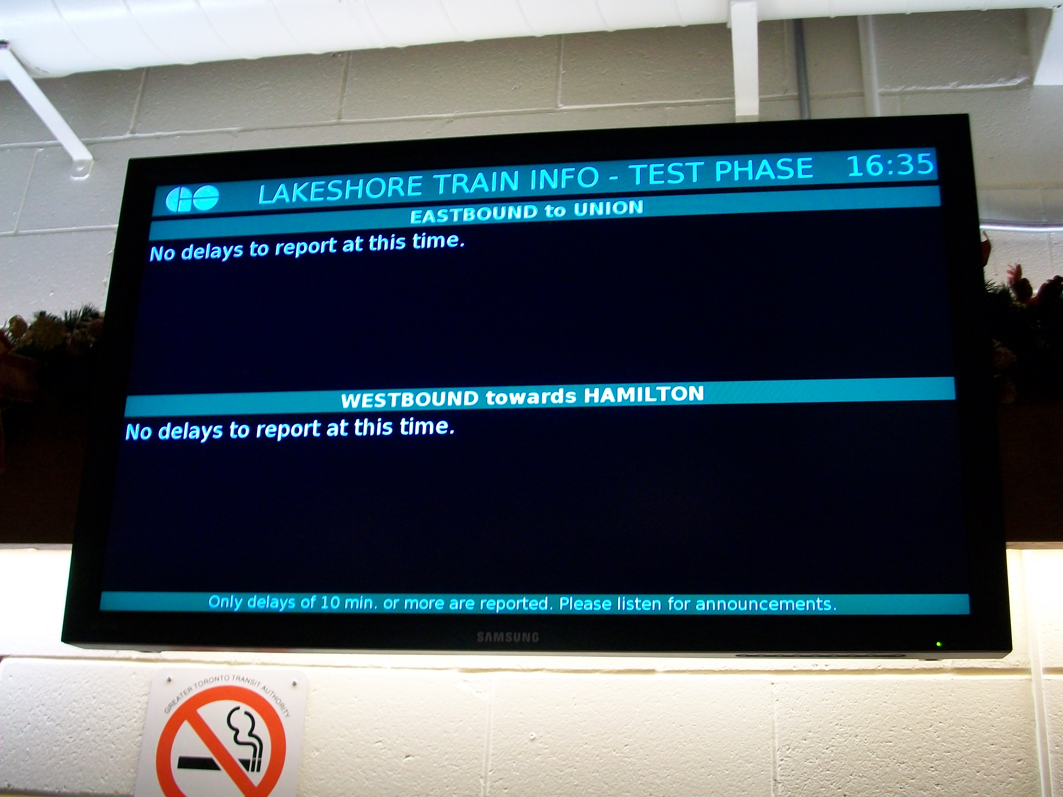 A delays board at the Long Branch Go Station